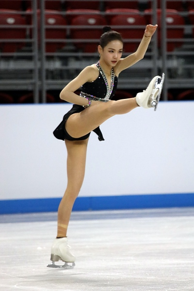 Photos – Junior World Championships 2018 – Ladies (Eunsoo LIM KOR – 5th Place)